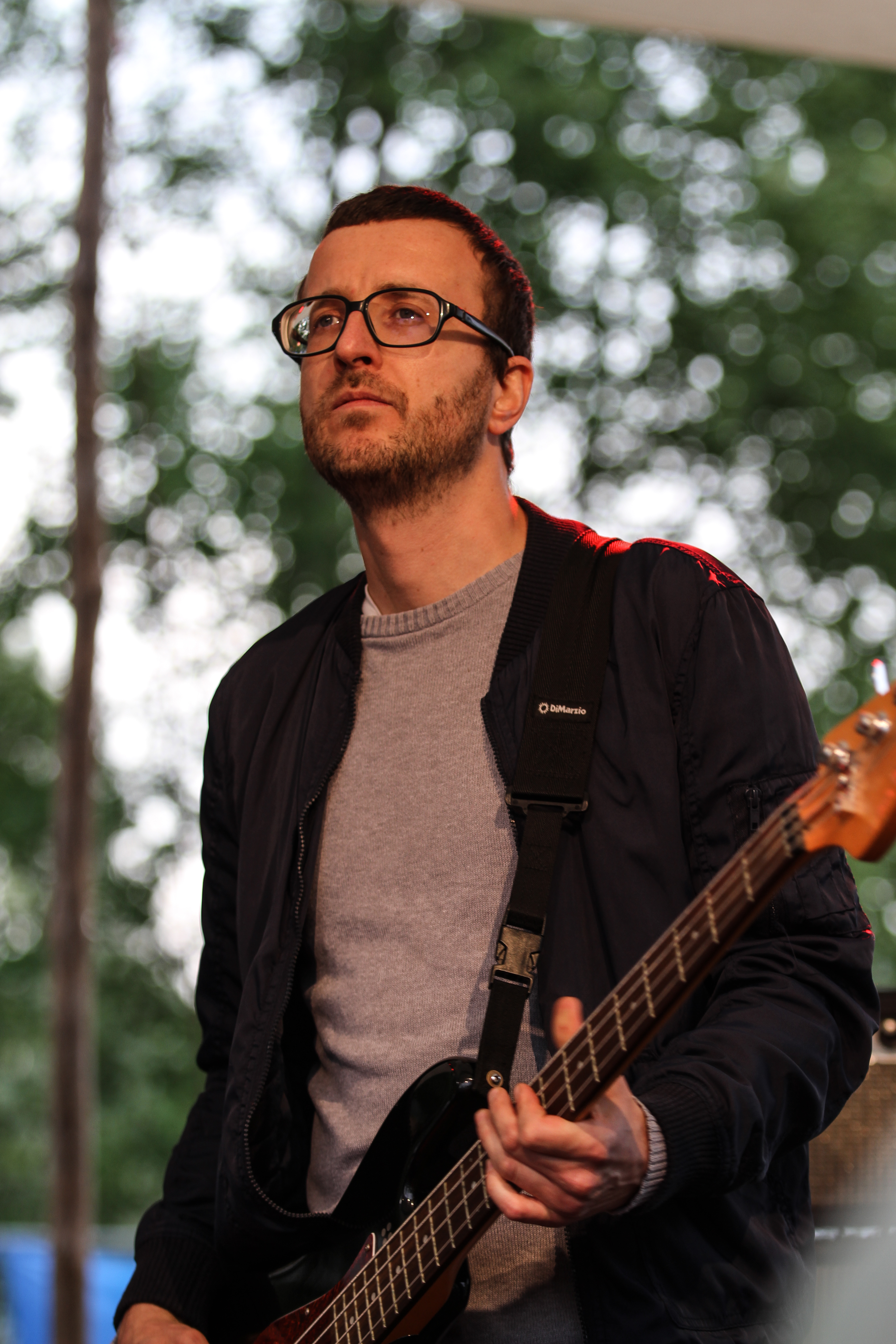 Festivalsommer This photo was created with the support of donations to Wikimedia Deutschland in the context of the CPB project "Festival Summer".